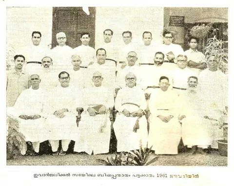 clergy in 1961